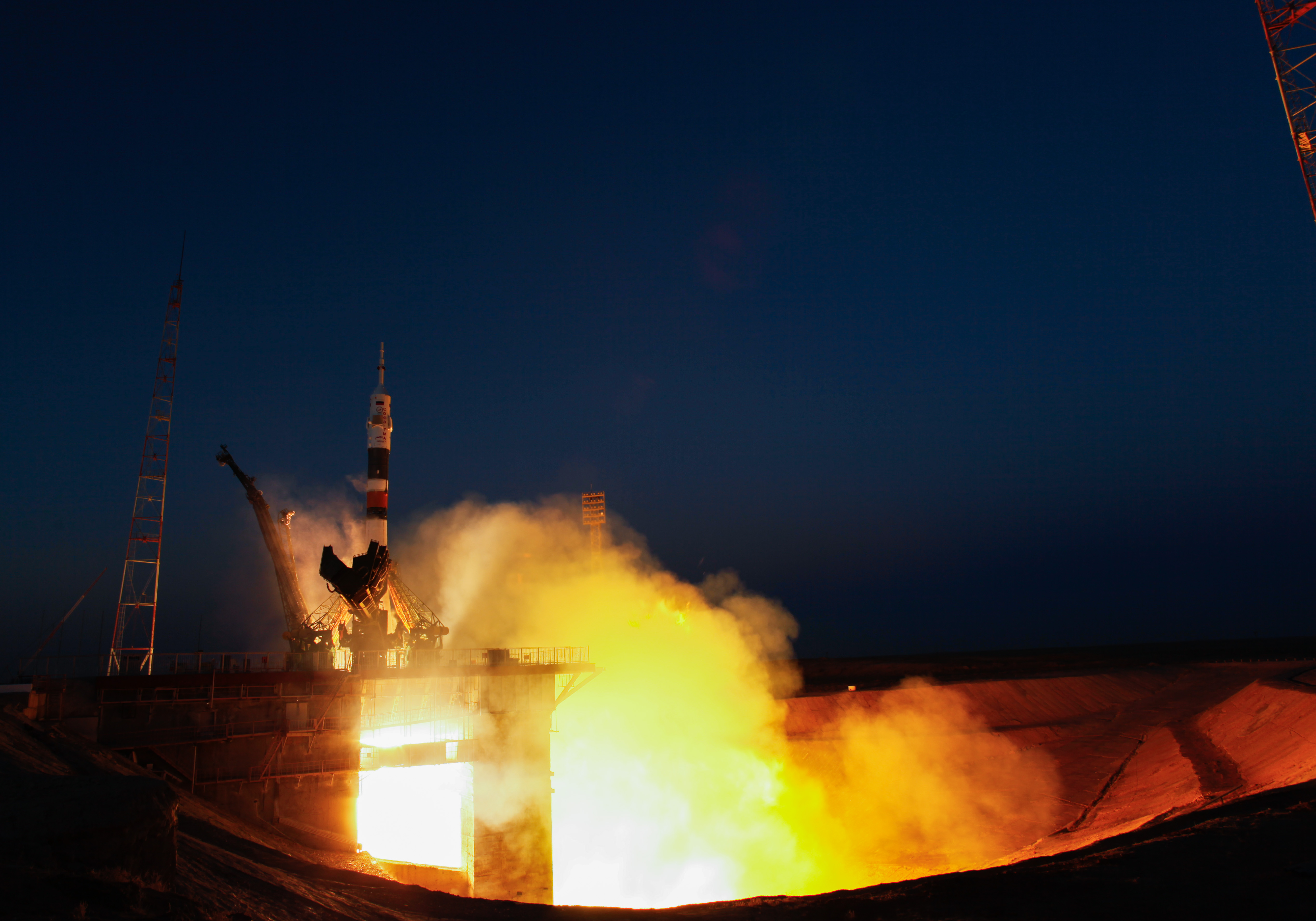 The Soyuz TMA-07M rocket launches from the Baikonur Cosmodrome in Kazakhstan on Wednesday, Dec. 19, 2012 carrying Expedition 34 NASA Flight Engineers Tom Marshburn, Soyuz Commander Roman Romanenko and Flight Engineer Chris Hadfield of the Canadian Space Agency (CSA) to the International Space Station. Their Soyuz TMA-07M rocket launched at 6:12 p.m. local time.